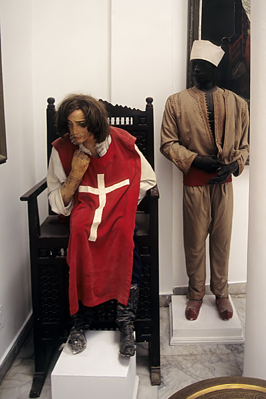 Louis IX in the museum hall in the Ibn Luqman house, el-Mansura, Egypt